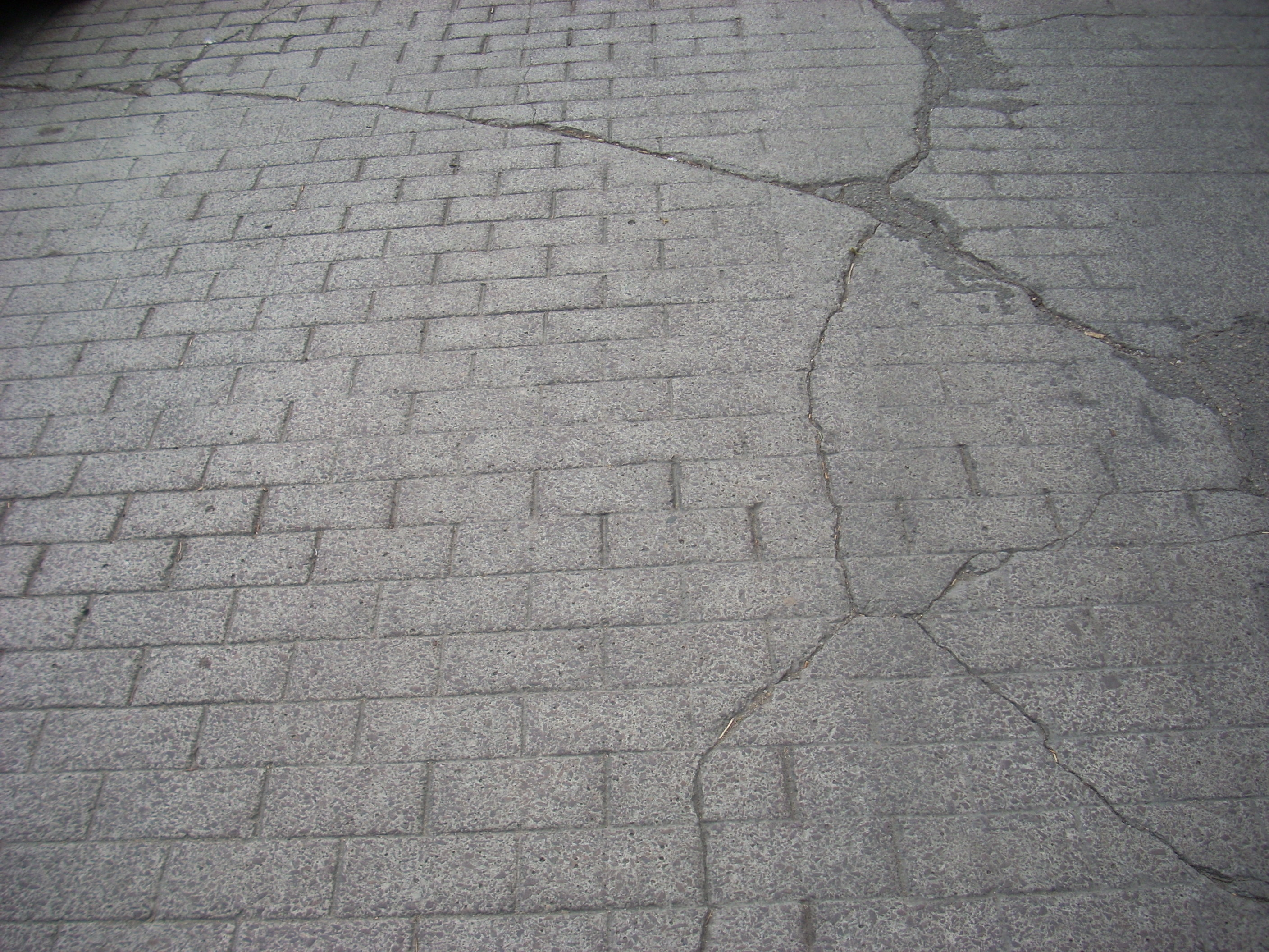 A section of R.S. Blome Co. Granitoid pavement located on Chestnut St, Grand Forks, North Dakota. Added to the National Register of Historic Places on November 5, 1991.